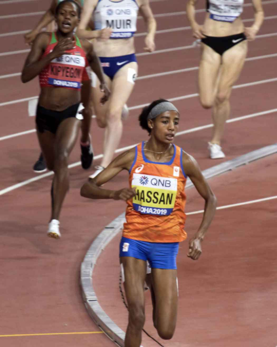 DOH80436 1500m women final hassan